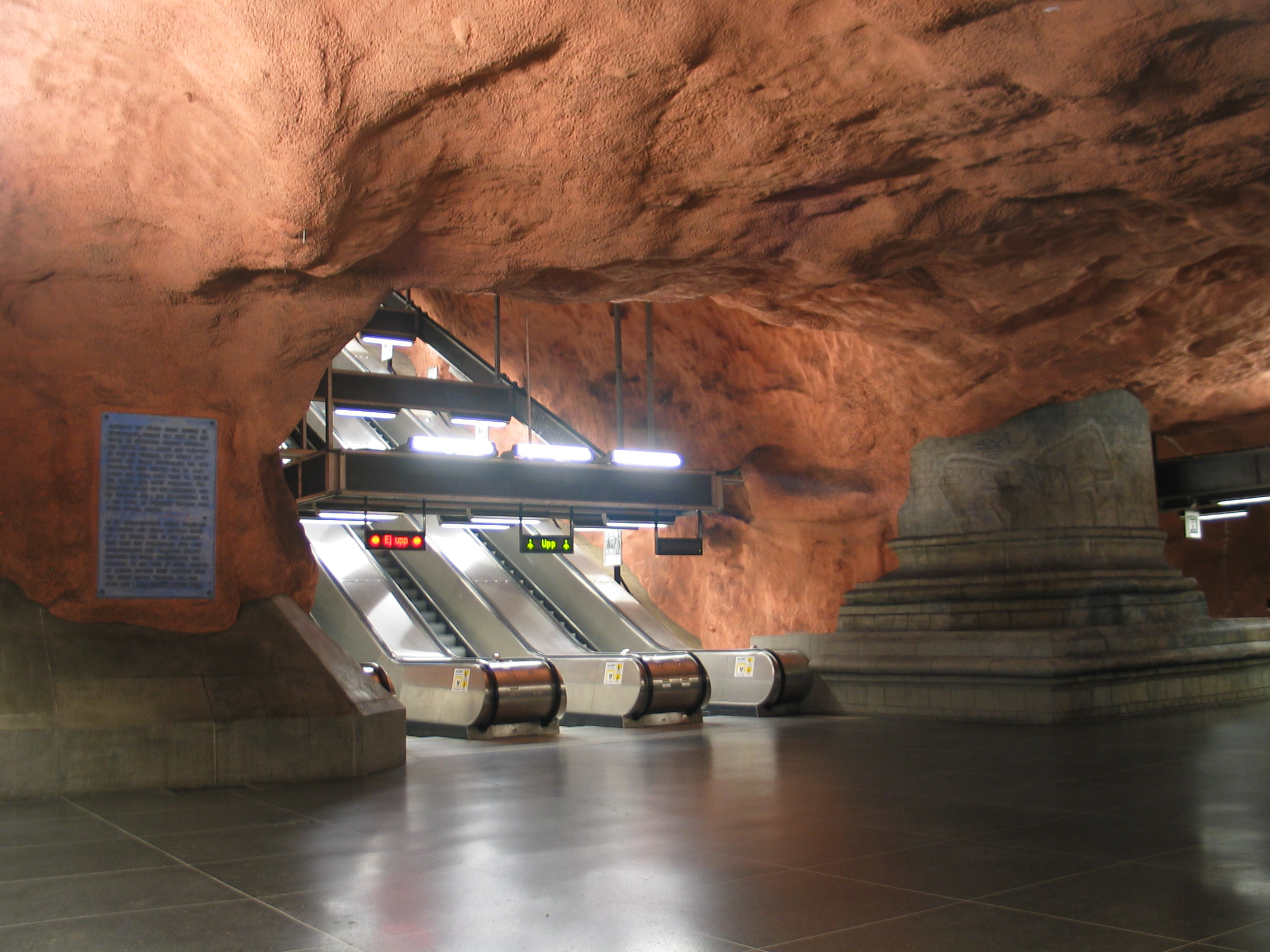 Rådhuset, a metro station in Stockholm, Sweden.